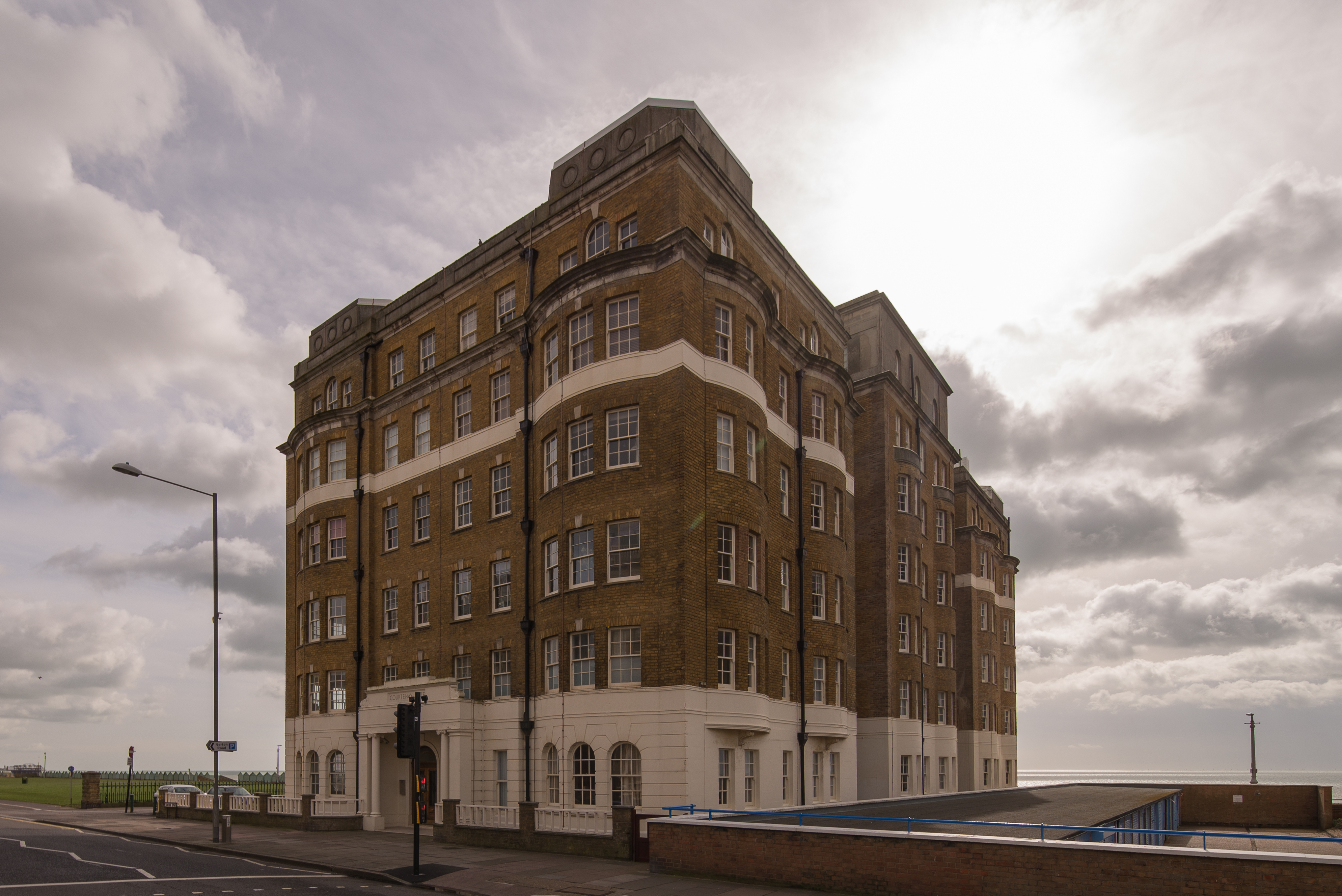 Courtenay Gate is an apartment block on the seafront in Hove, part of the English coastal city of Brighton and Hove. Situated in a prominent position next to the beach and overlooking Hove Lawns, the six-storey block is Neo-Georgian in style and dates from 1934.